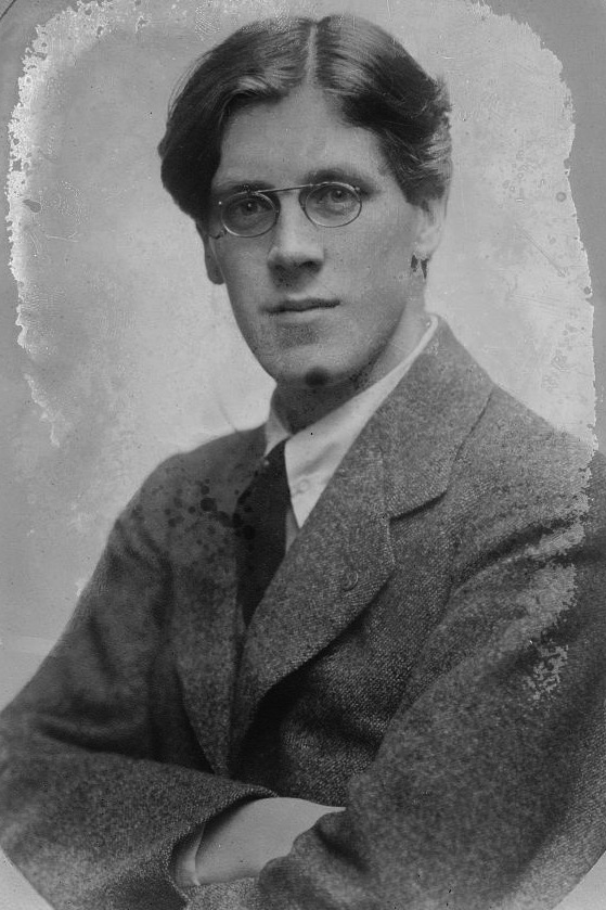 Portrait of A. Fenner Brockway, British anti-war activist and politician.